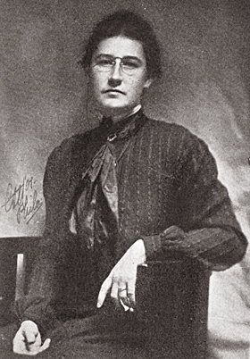 Jessie Willcox Smith, estimate between 1880-1910